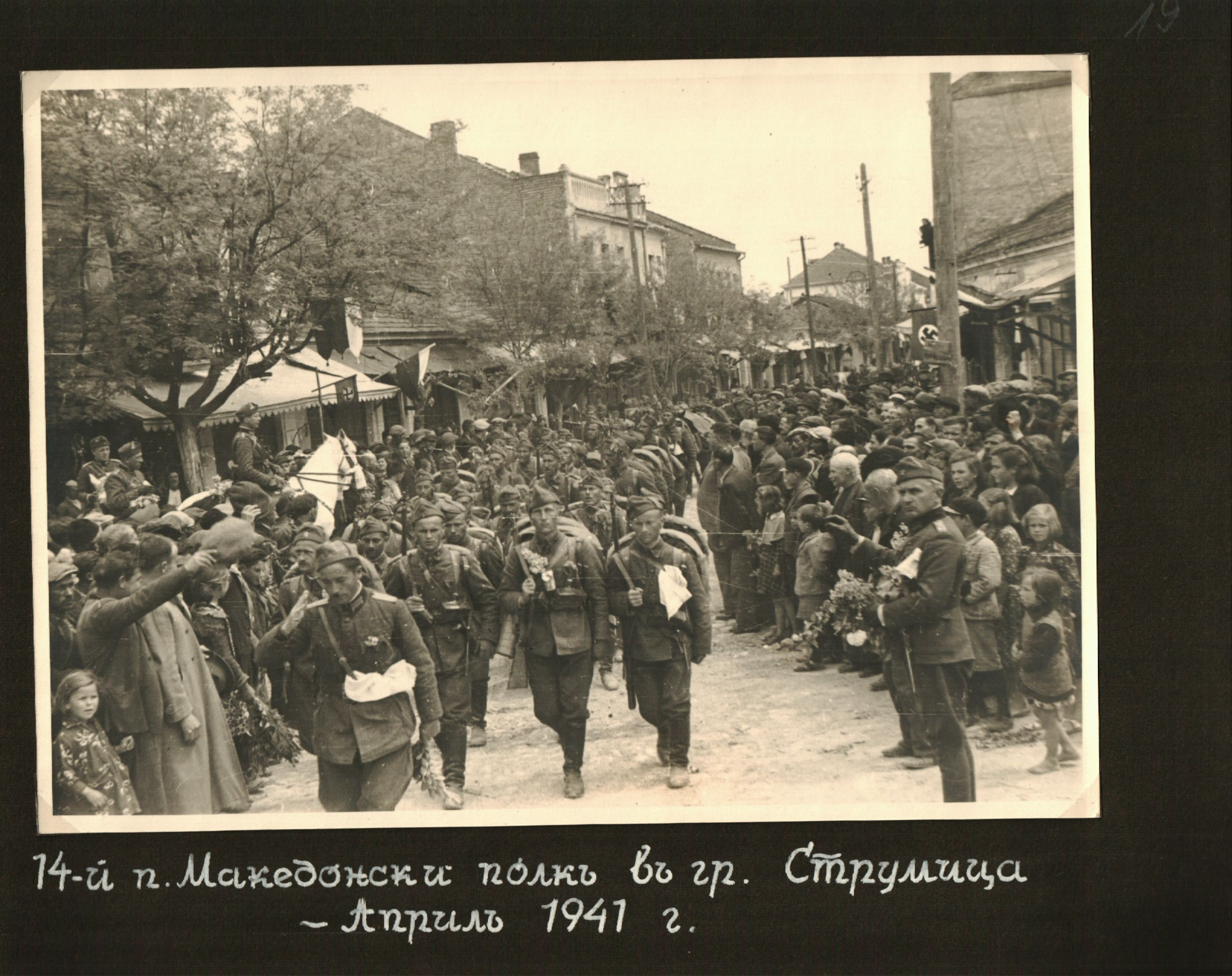 14 Infantry Macedonian Regiment